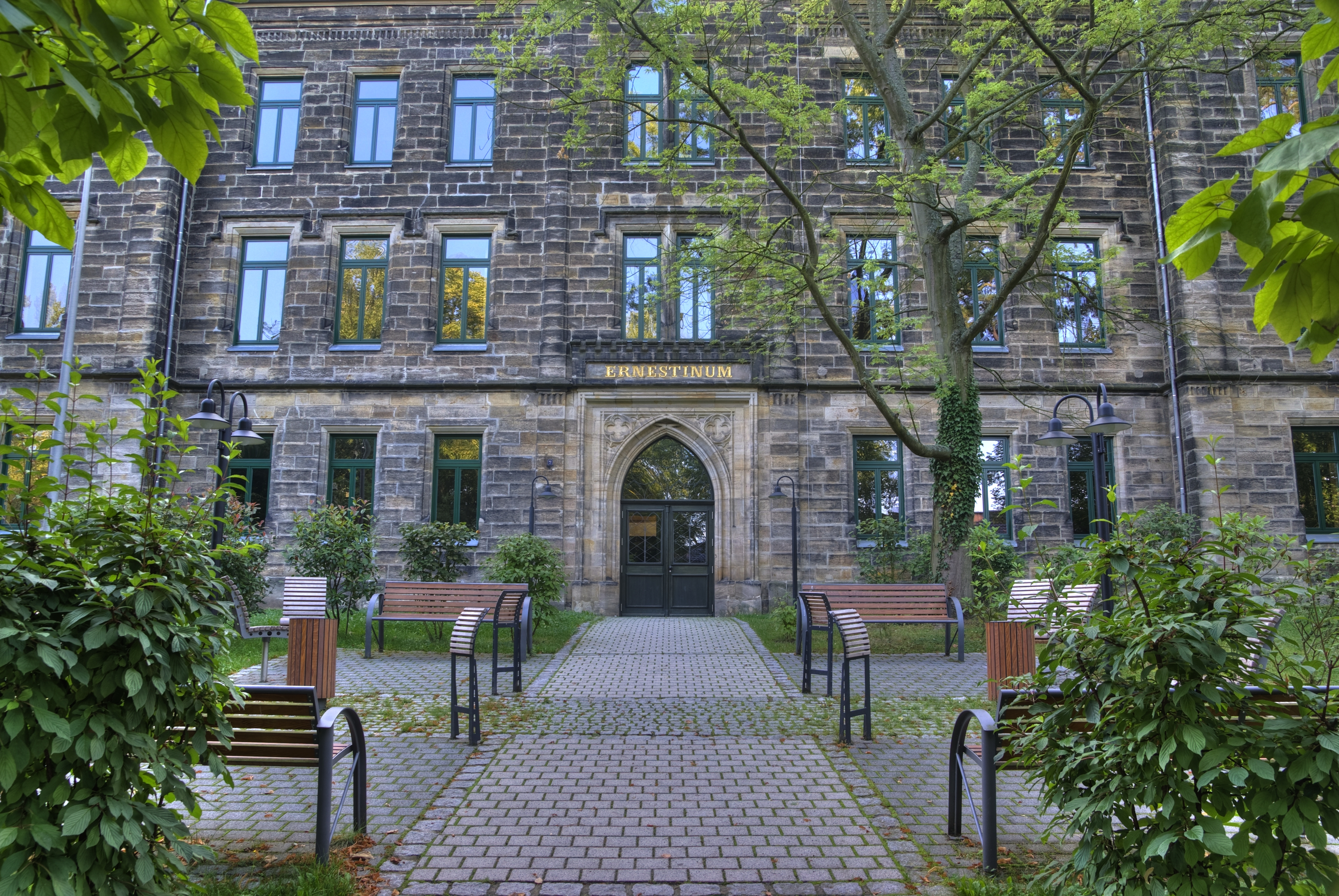 Ernestinum, grammar school in coburg, bavaria.